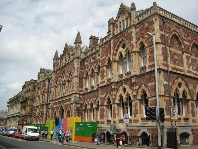 The Royal Albert Memorial Museum, Exeter. The contributor of this photos is Philip Halling.